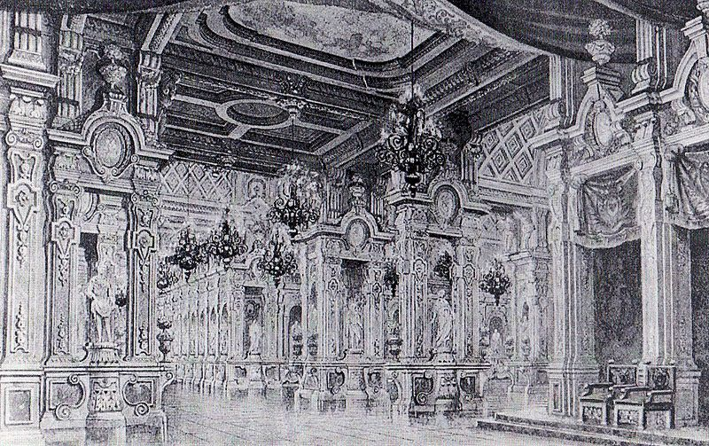 Design by Matvey Shishkov